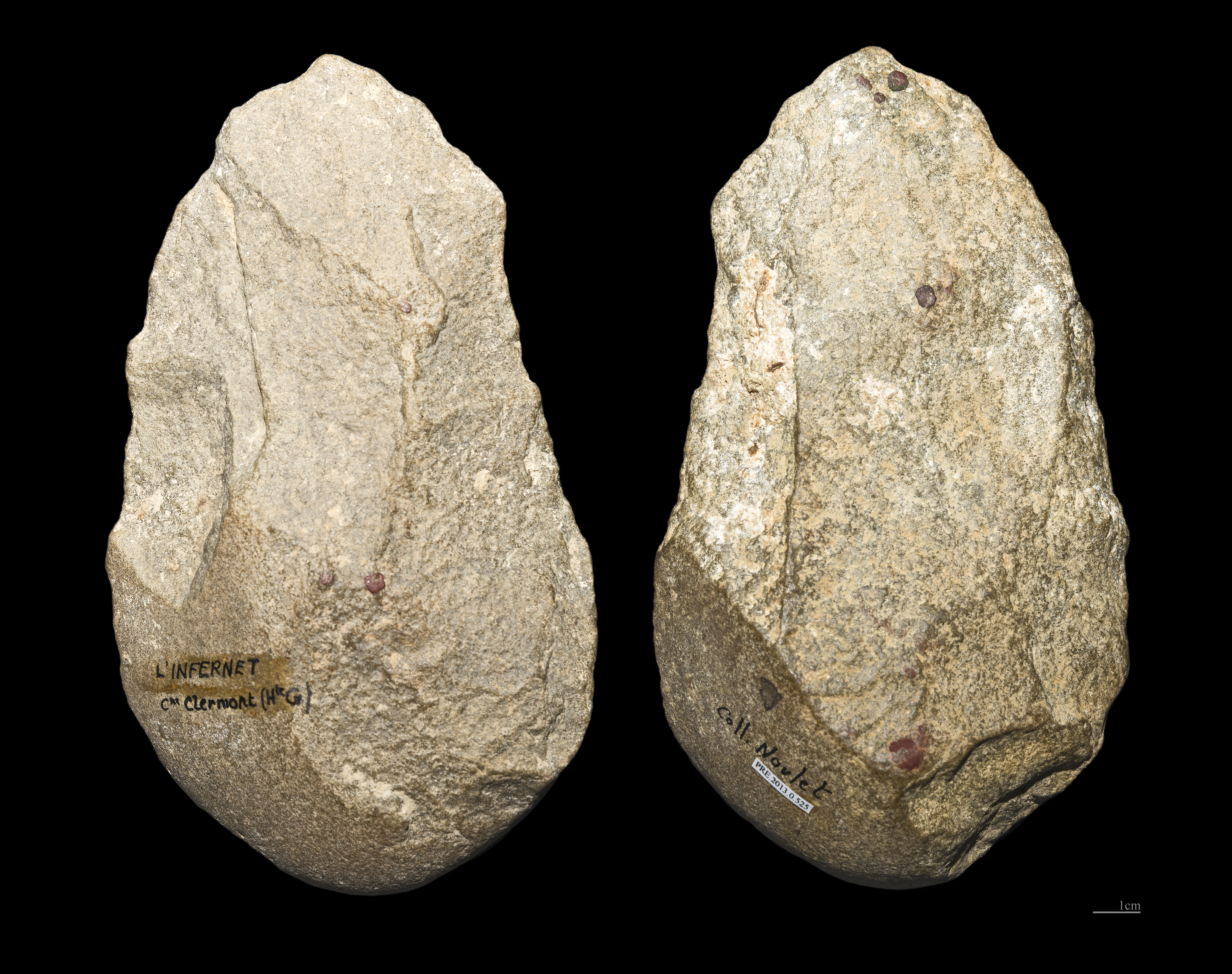 Biface - The two sides of the same specimen. Production lithic last Neanderthals. This is one of the first artifacts of Homo genus that is found associated with bones of extinct animals, certifying an indirect way to the existence of human fossils in 1851. Stage : Châtelperronian (38,000 to 32,000 years Before the Current Era) Locality : Infernet, Clermont-le-Fort France Size : 17.2x9.5x4.7 cm Former collection of Jean-Baptiste Noulet